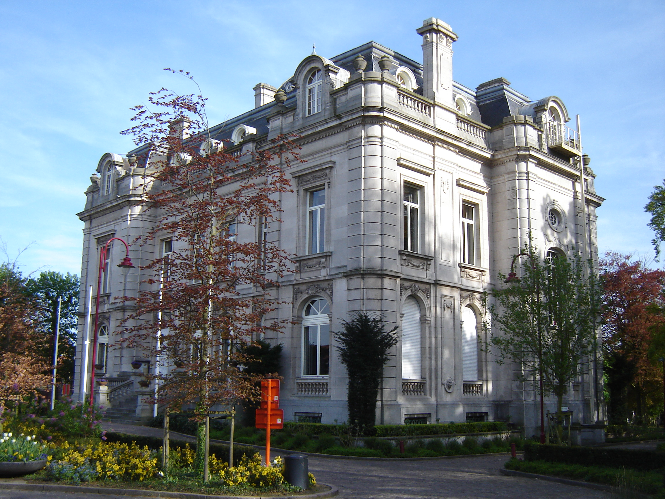 Town hall of Destelbergen. Destelbergen, East Flanders, Belgium